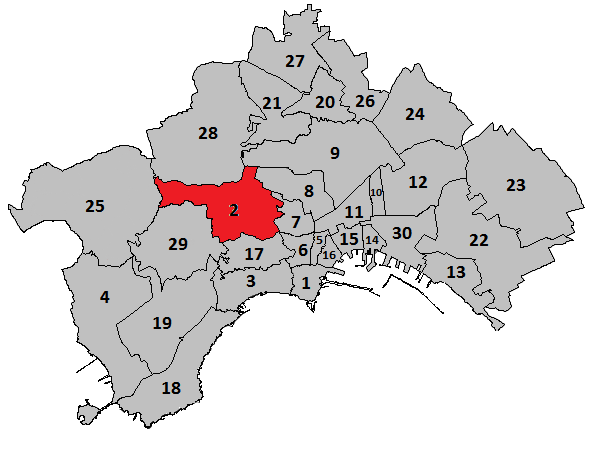 Arenell in Naples